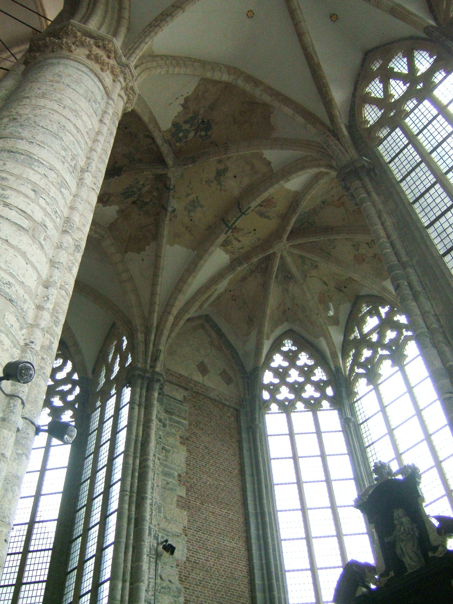 Frescos on the vault over the nave of the gothic Sint-Niklaaskerk in Gent.